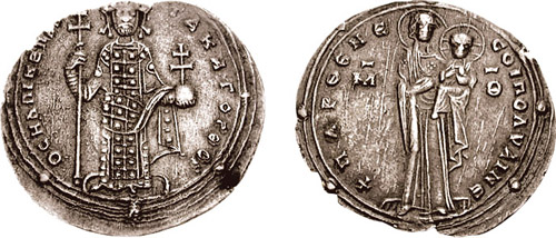 Romanus III Argyrus AR Miliaresion. Constantinople mint. Struck 1030 AD. ΟCΗΛΠΙΚΕ ΠΑΝ-ΤΑ ΚΑΤΟΡΘΟΙ, Romanus standing facing on footstool, in crown & loros, holding long patriarchal cross crown and loros, holding long patriarchal cross and patriarchal cross on globus; triple border with eight spaced pellets. +ΠΑΡΘΕΝΕ CΟΙΠΟΛVΑΙΝΕ, Μ Θ across field, the Virgin, nimbate, standing facing on footstool, holding nimbate infant Christ; triple border with eight spaced pellets DOC III 3a.